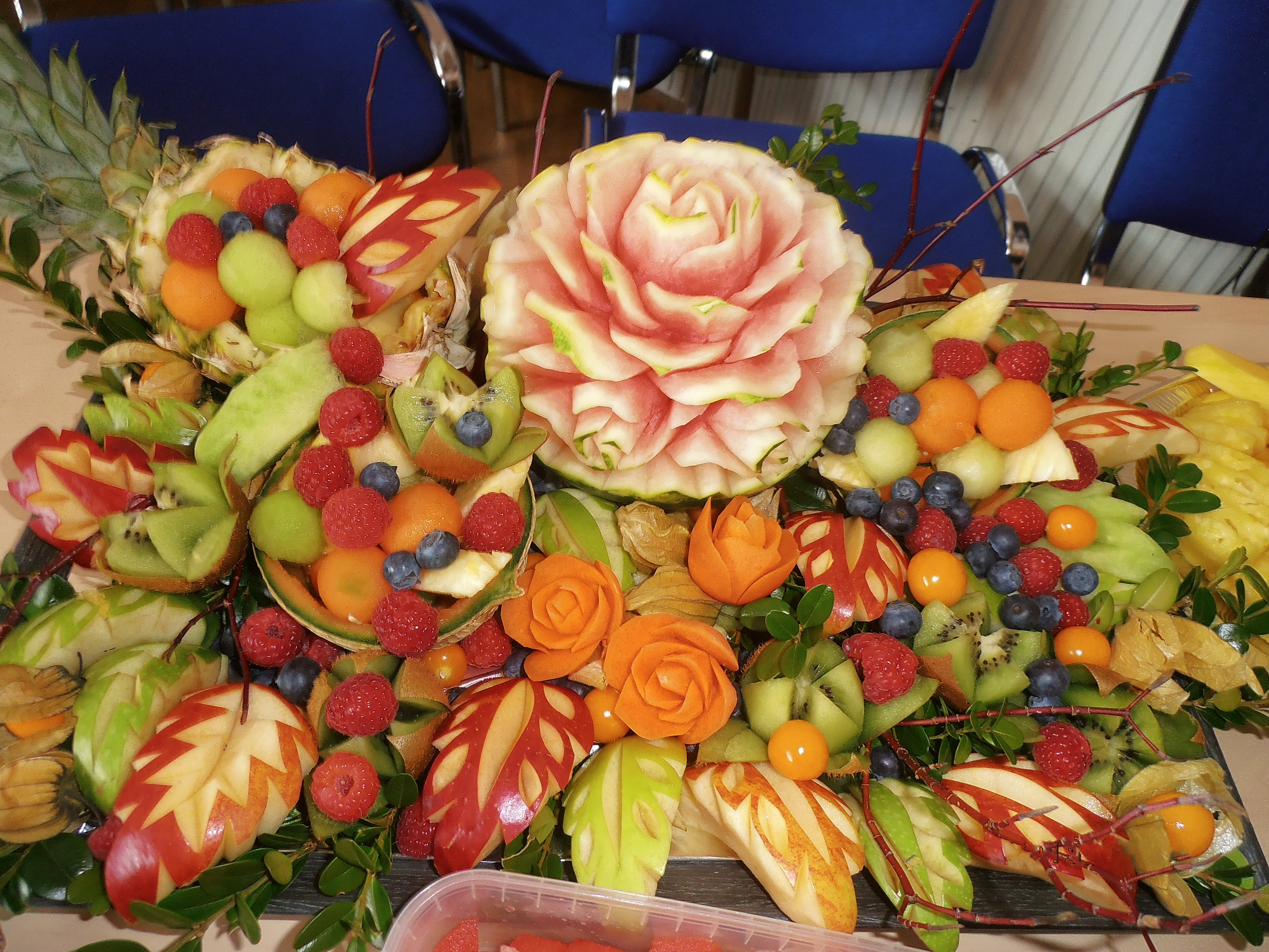 Give the community.